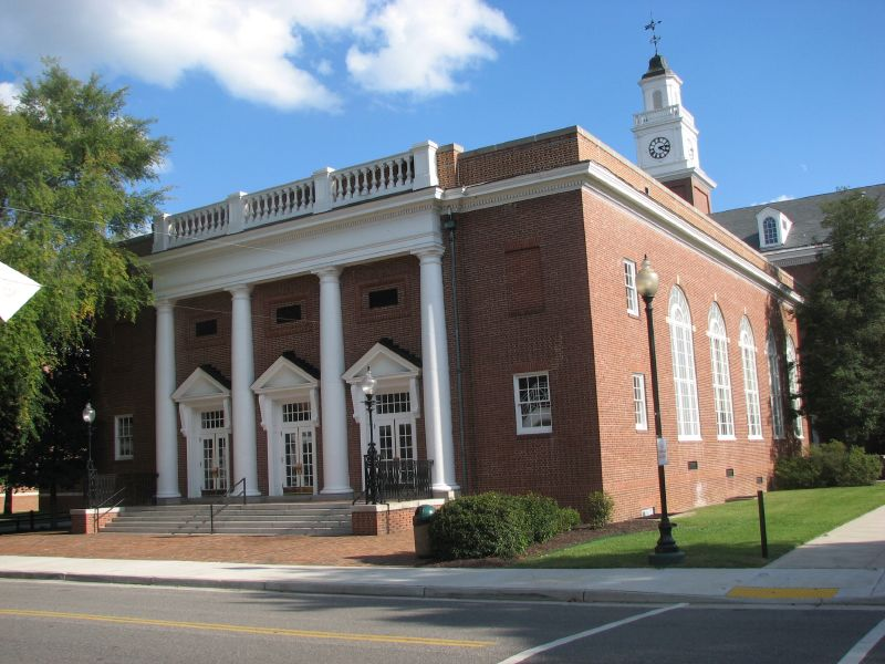 Presumably a chapel, at Virginia State University 2006